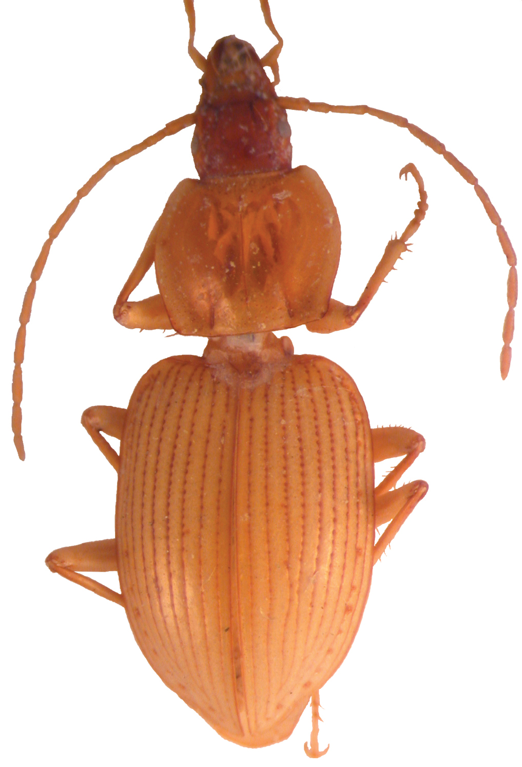 Mateuellus troglobioticus Deuve, holotype.